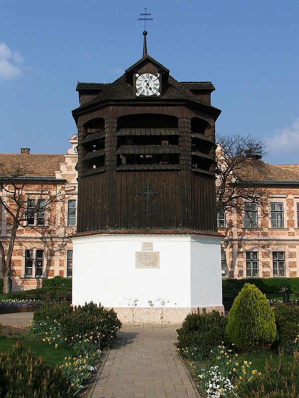 Belfry in Tata city